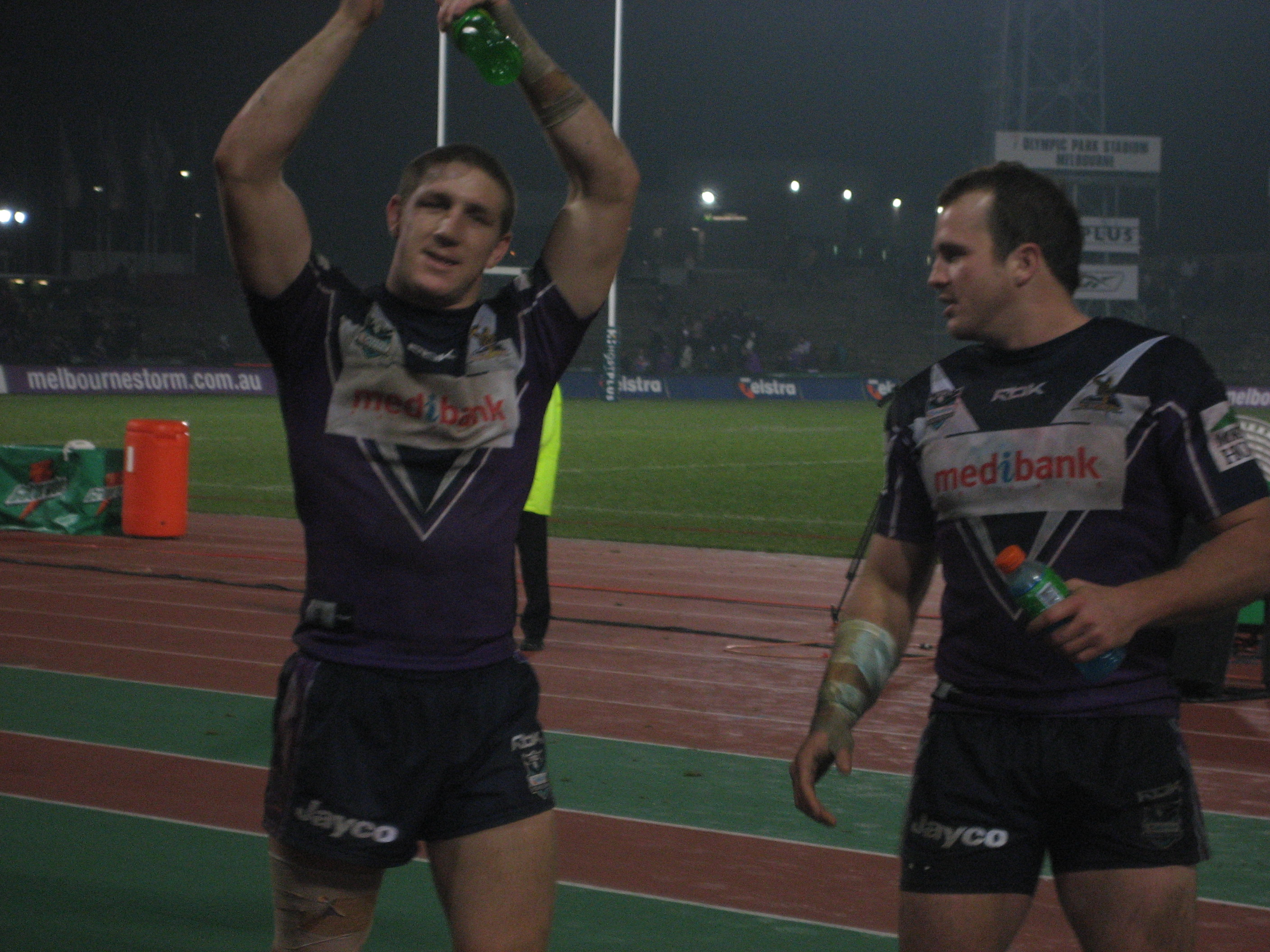 photo i took at a game